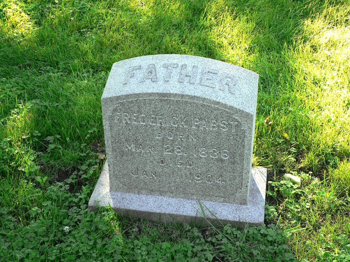 Copyright © 2006 Sulfur Gravesite of brewing magnate Frederick Pabst, located on the grounds of Forest Home Cemetery in Milwaukee, Wisconsin.